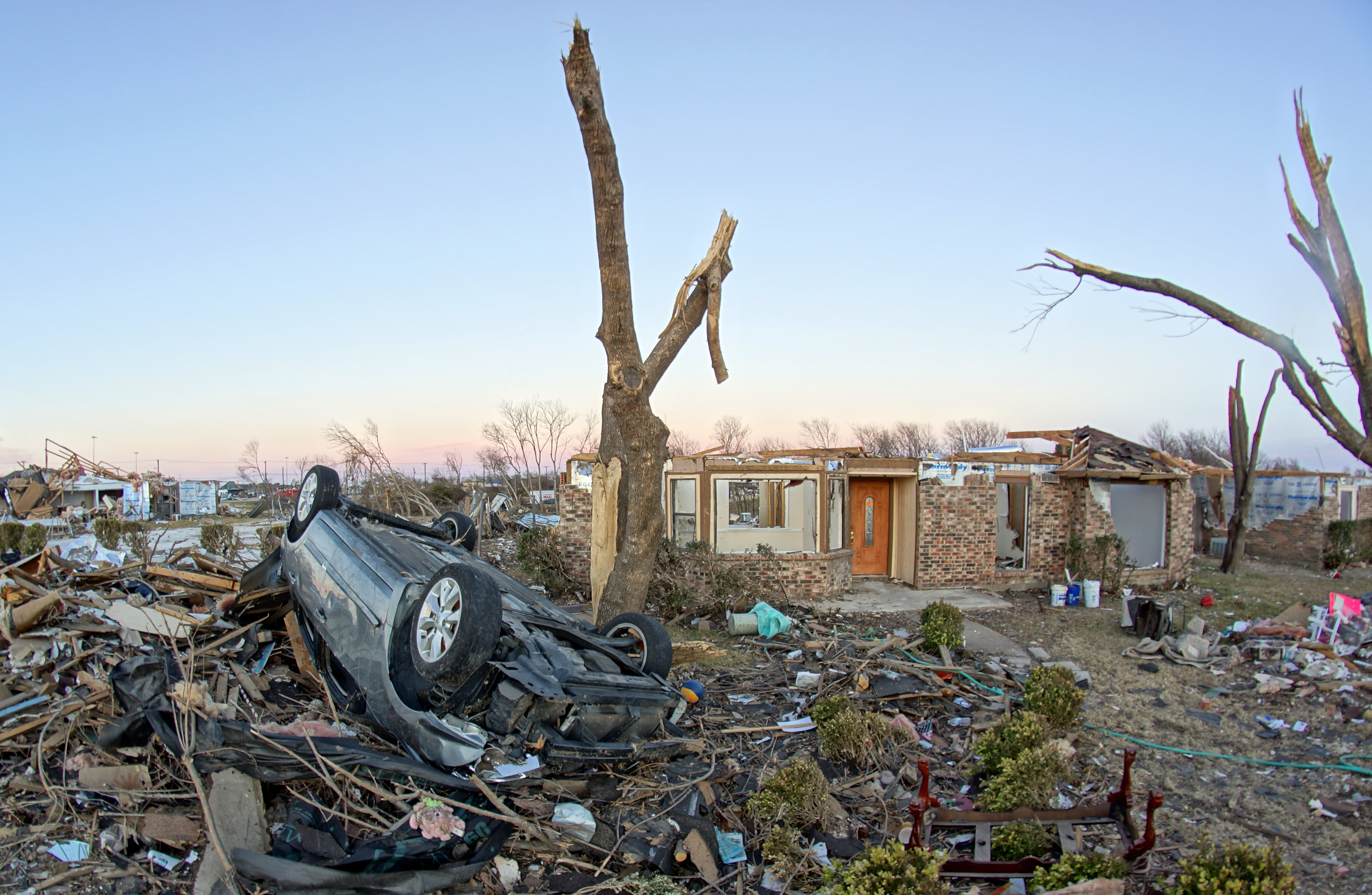 December 26-28 2015 Garland and Rowlett,TX EF4 Tornado Damage captured on 1-25-2016